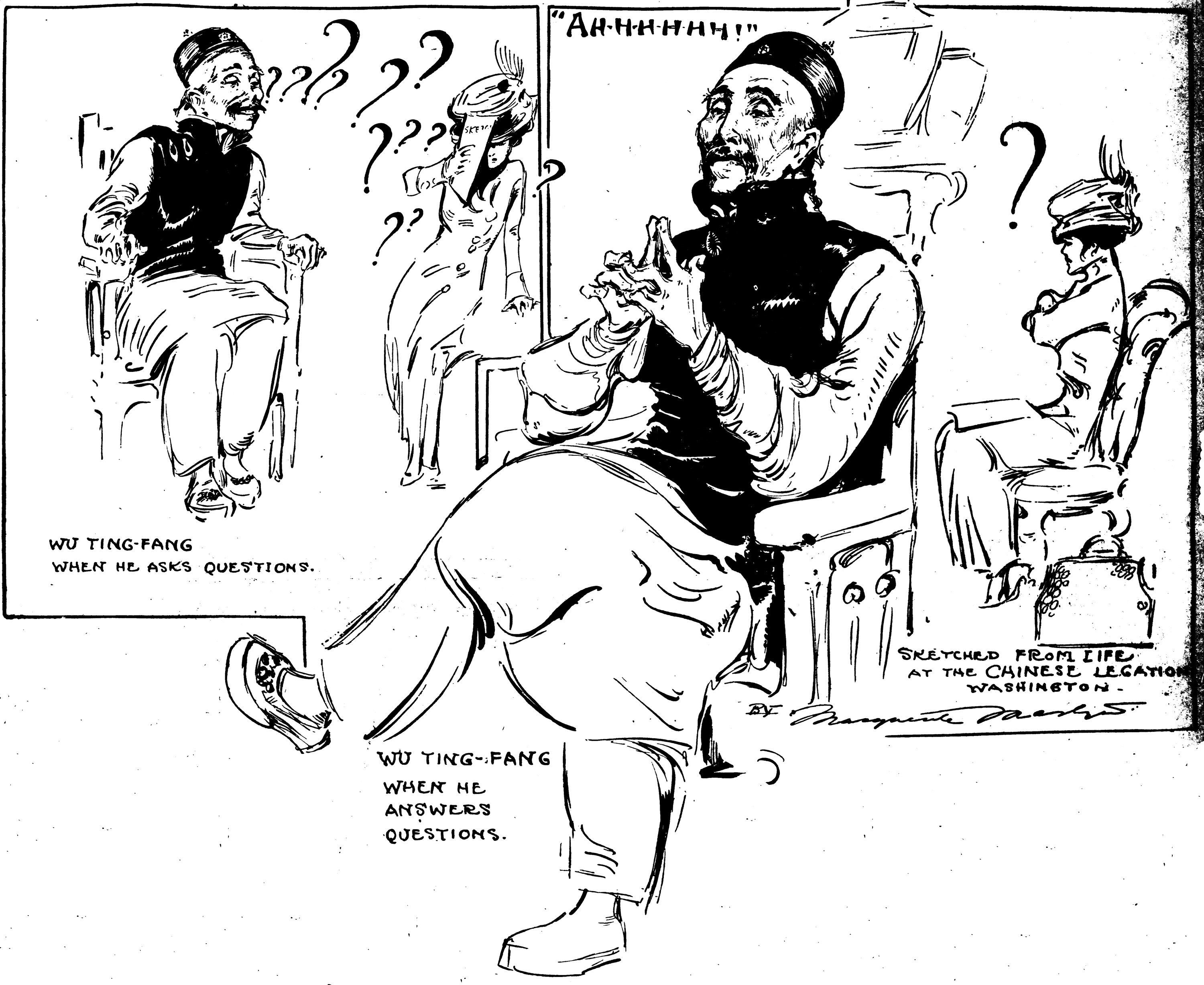 In this sketch, journalist Marguerite Martyn illustrates her interview in Washington, D.C. with Wu Tingfang, retiring minister from China to the United States She writes that he was voluble when asking questions of her but carefully took his time in answering questions that she asked. The interview, and sketches made by Martyn, were printed in the St. Louis Post-Dispatch on October 24, 1909.